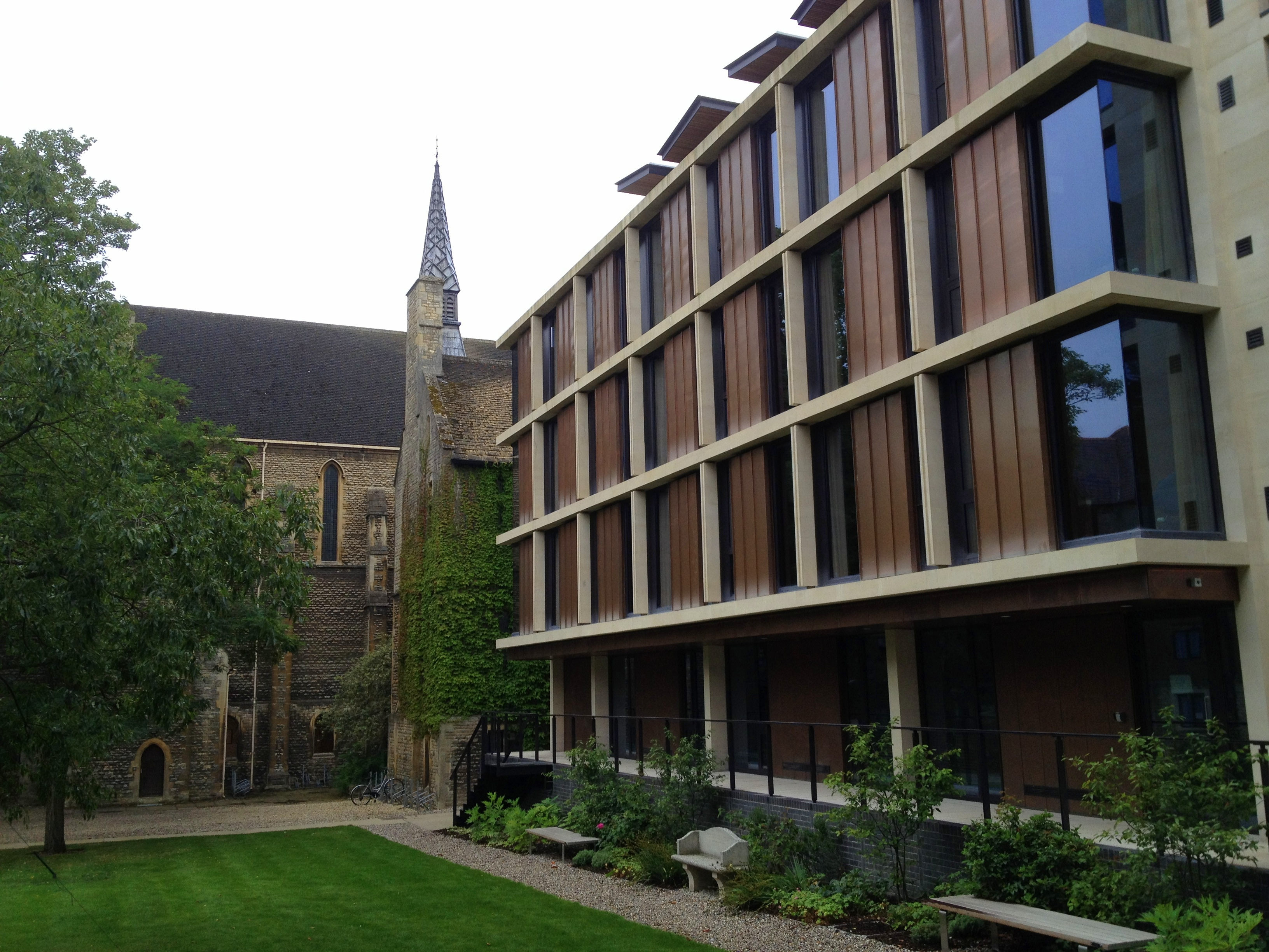 The west side of the quadrangle at St Antony's College, Oxford